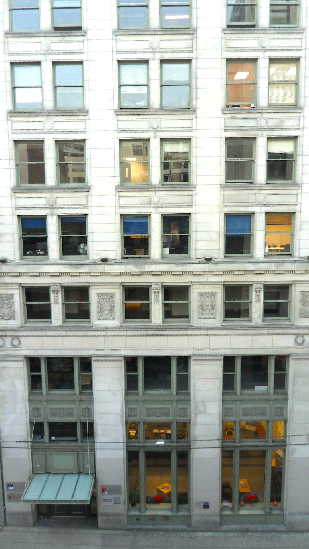 The London Building 626 W Pender St Vancouver